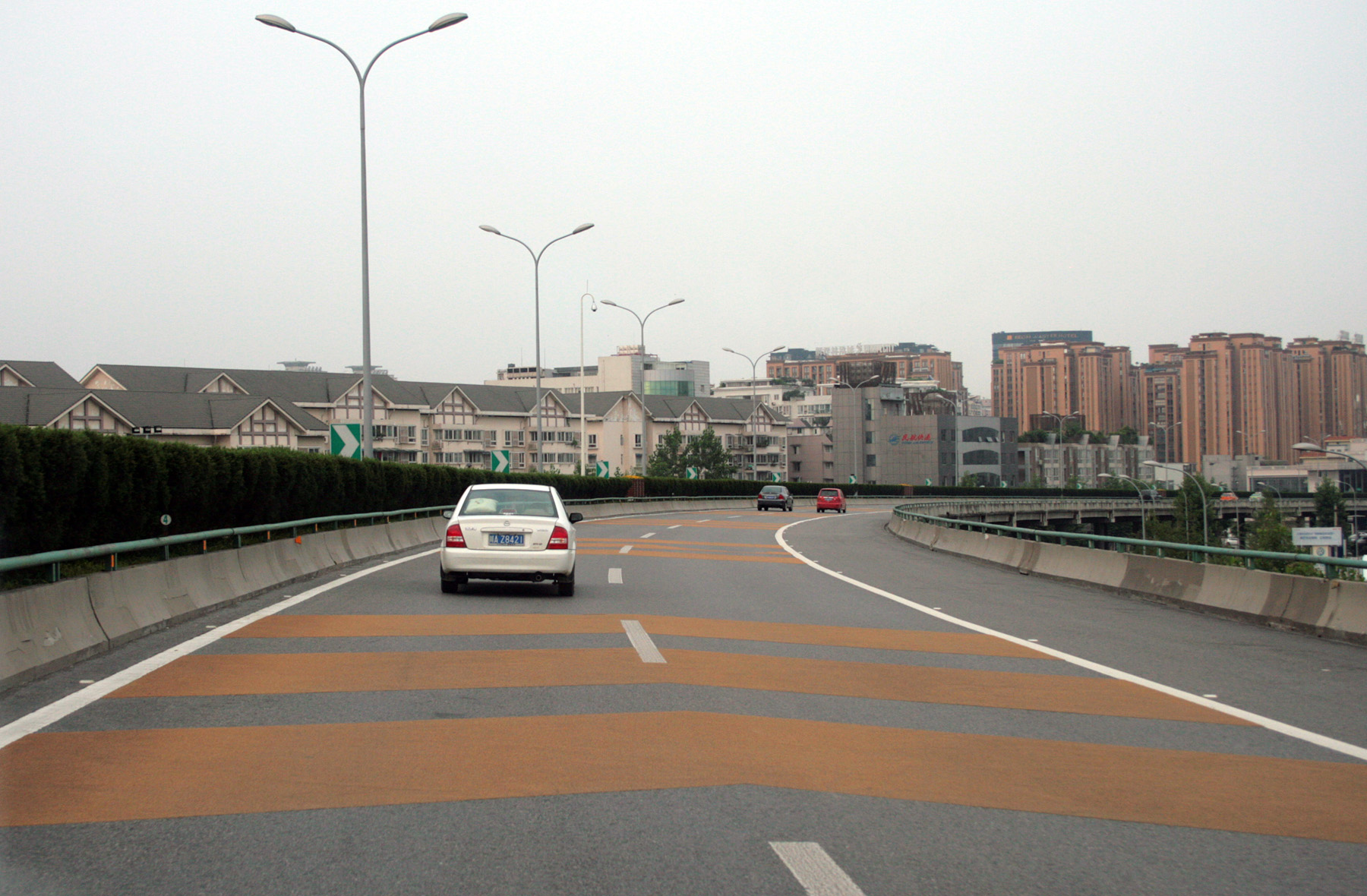 Airport Expressway of Chengdu